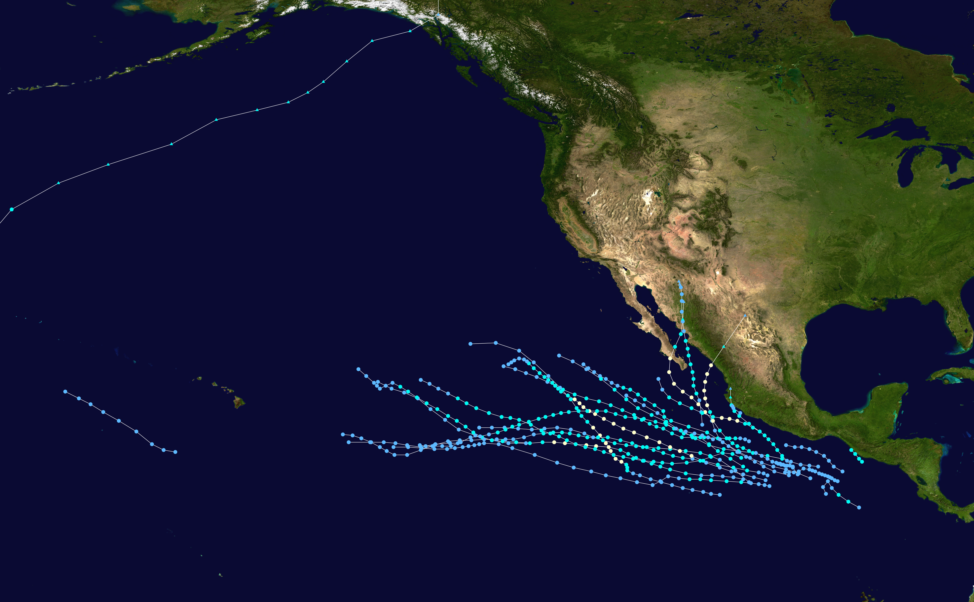 This map shows the tracks of all tropical cyclones in the 1968 Pacific hurricane season. The points show the location of each storm at 6-hour intervals. The colour represents the storm's maximum sustained wind speeds as classified in the Saffir-Simpson Hurricane Scale (see below), and the shape of the data points represent the type of the storm. Saffir–Simpson hurricane wind scale Tropical depression≤38 mph≤62 km/h Category 3111–129 mph178–208 km/h Tropical storm39–73 mph63–118 km/h Category 4130–156 mph209–251 km/h Category 174–95 mph119–153 km/h Category 5≥157 mph≥252 km/h Category 296–110 mph154–177 km/h Unknown Storm typeTropical cycloneSubtropical cycloneExtratropical cyclone / Remnant low / Tropical disturbance